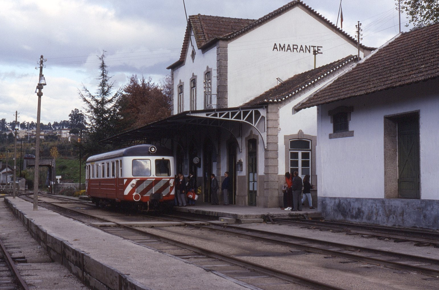 Another metre gauge branch connecting off the Duoro valley line. Seen at the end of the line at Amarante, single railcar no. 9101 is seen on 7 November 1993 on train 6010, 16:34 Amarante to Livração.